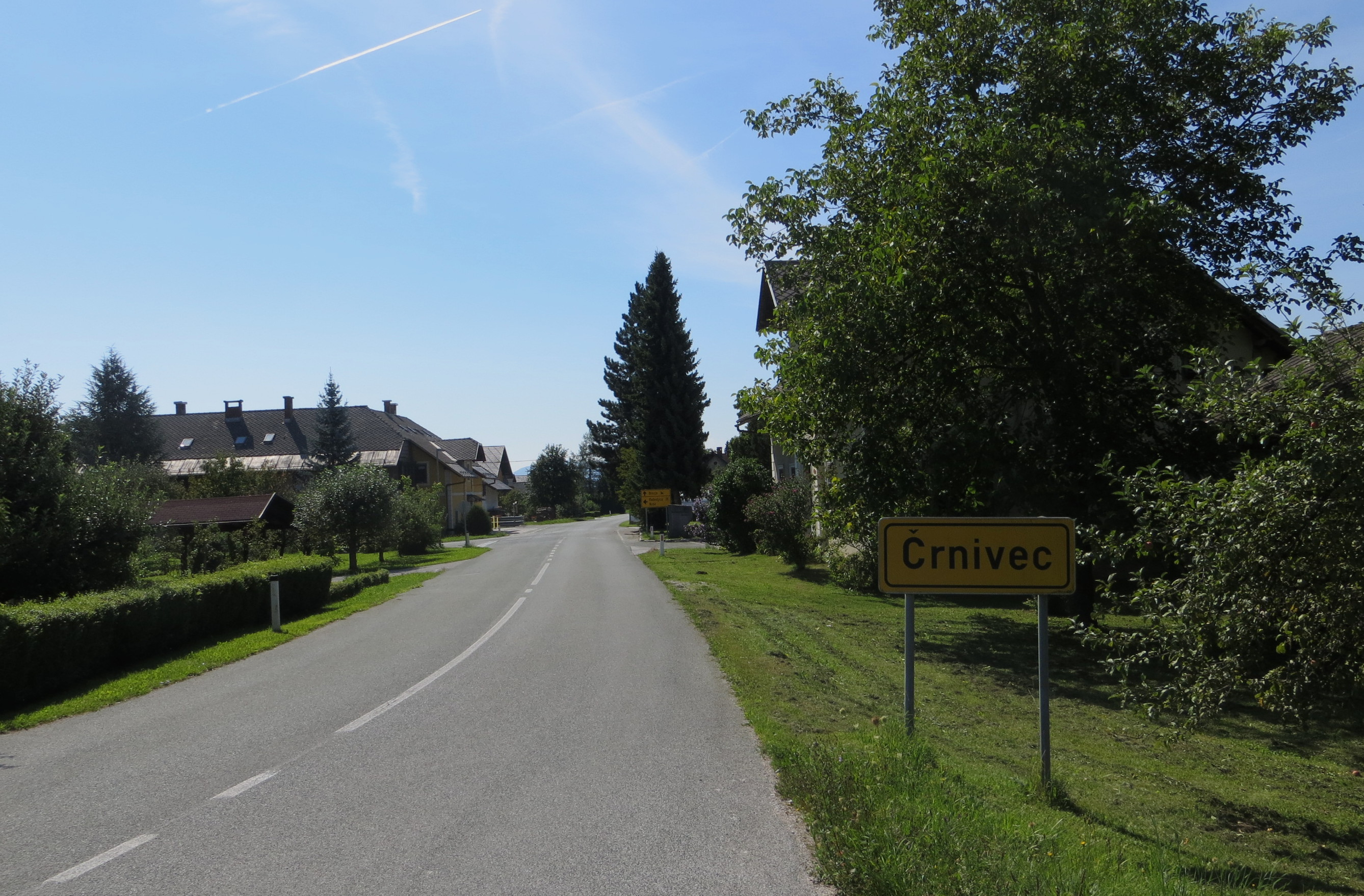 Črnivec, Municipality of Radovljica, Slovenia